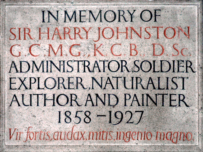 Wall-mounted memorial plaque to Sir Harry Johnston, GCMG, KCB, DSc, in St Nicholas' parish church, Poling, West Sussex.Designed and cut in Perpetua typeface by Eric Gill, Arts and Crafts sculptor and typeface designer.